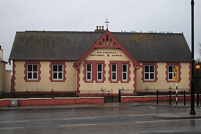 Ballinakill National School, near to Baile na Coille, Ironmills Bridge and Longhill Bridge, Laois, Ireland. Wet weather in Ballinakill,a village on the R432 between Abbeyleix and Ballyragget.